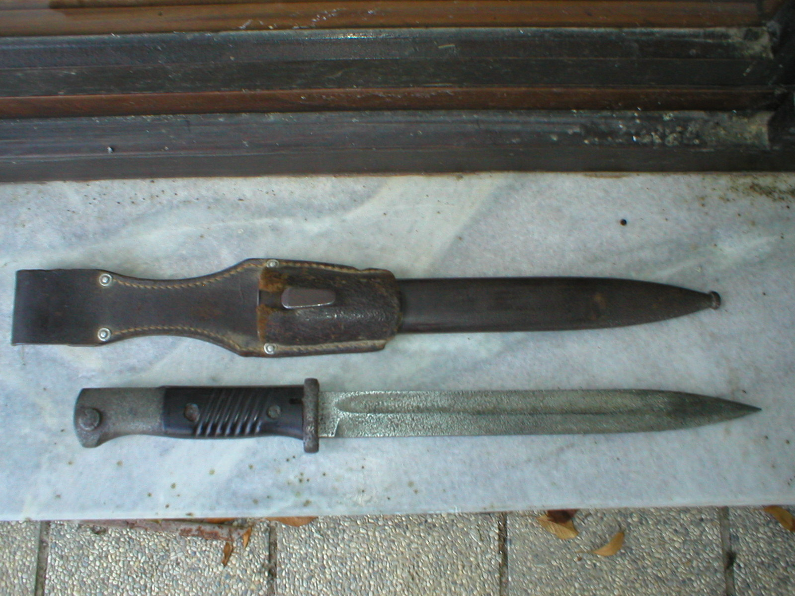 German bayonet M84/98 with scabbard and leather frog from WW2, designed for use with Mauser K98 rifle